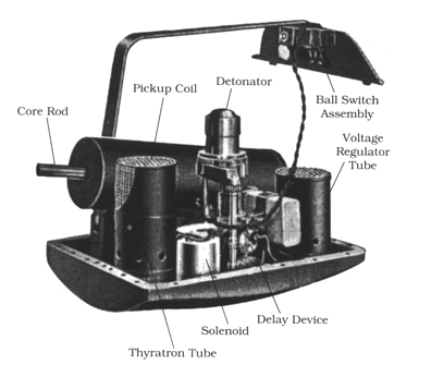 US Navy Mark VI magnetic exploder sub-assembly, used on Mark 14 torpedo. The magnetic exploder proved faulty in wartime use. Source: US Navy training manual, 1946.